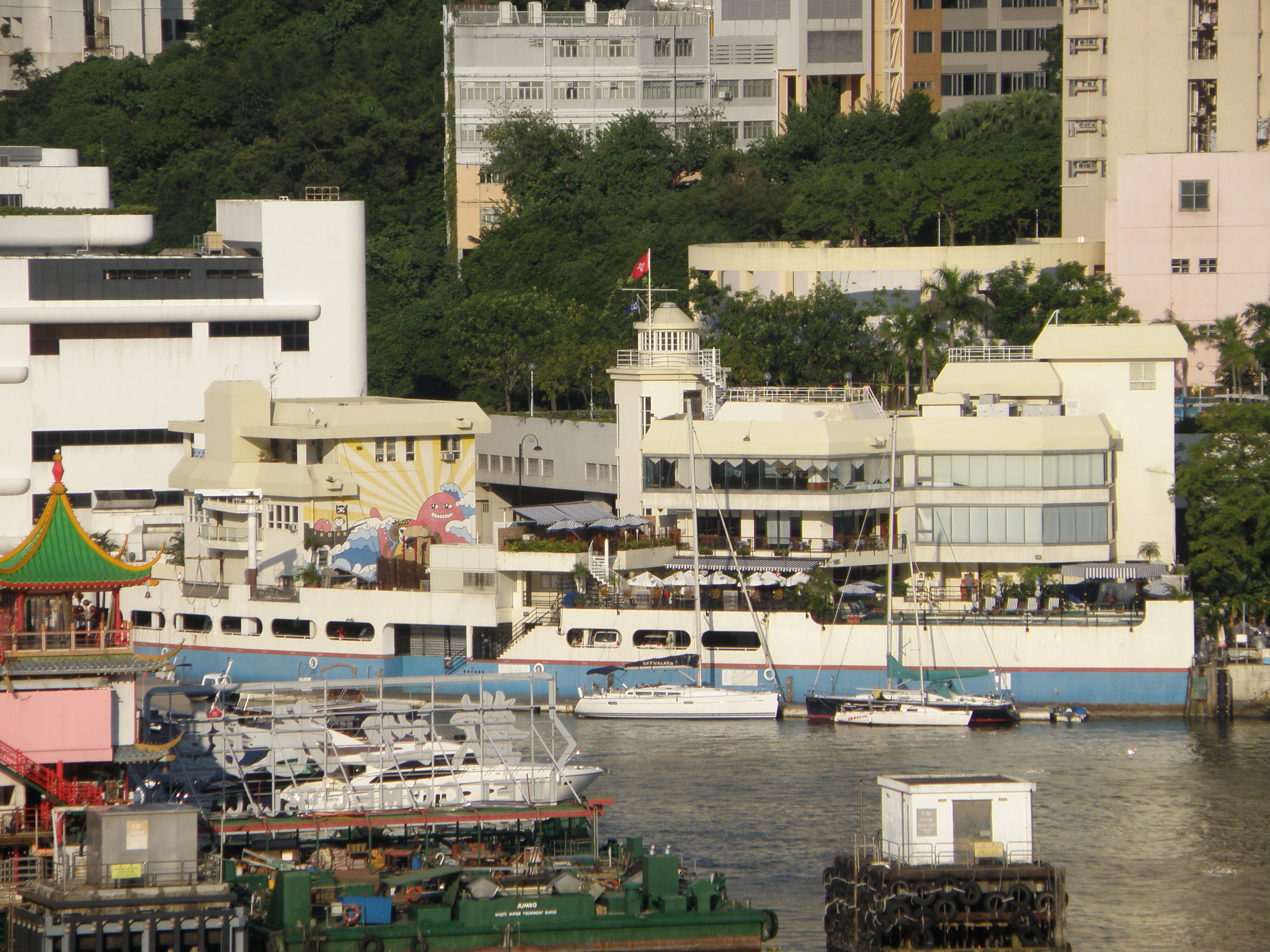 Aberdeen Boat Club in Sham Wan, Hong Kong.